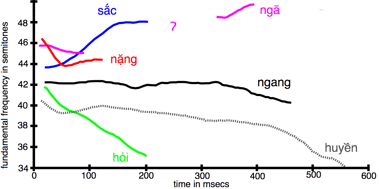 pitch contours and duration of Hanoi tones of a female speaker (age 36) the glottal stop [ʔ] marks the glottal closure in the middle of the ngã tone adapted from Nguyễn & Edmondson (1998: 11).